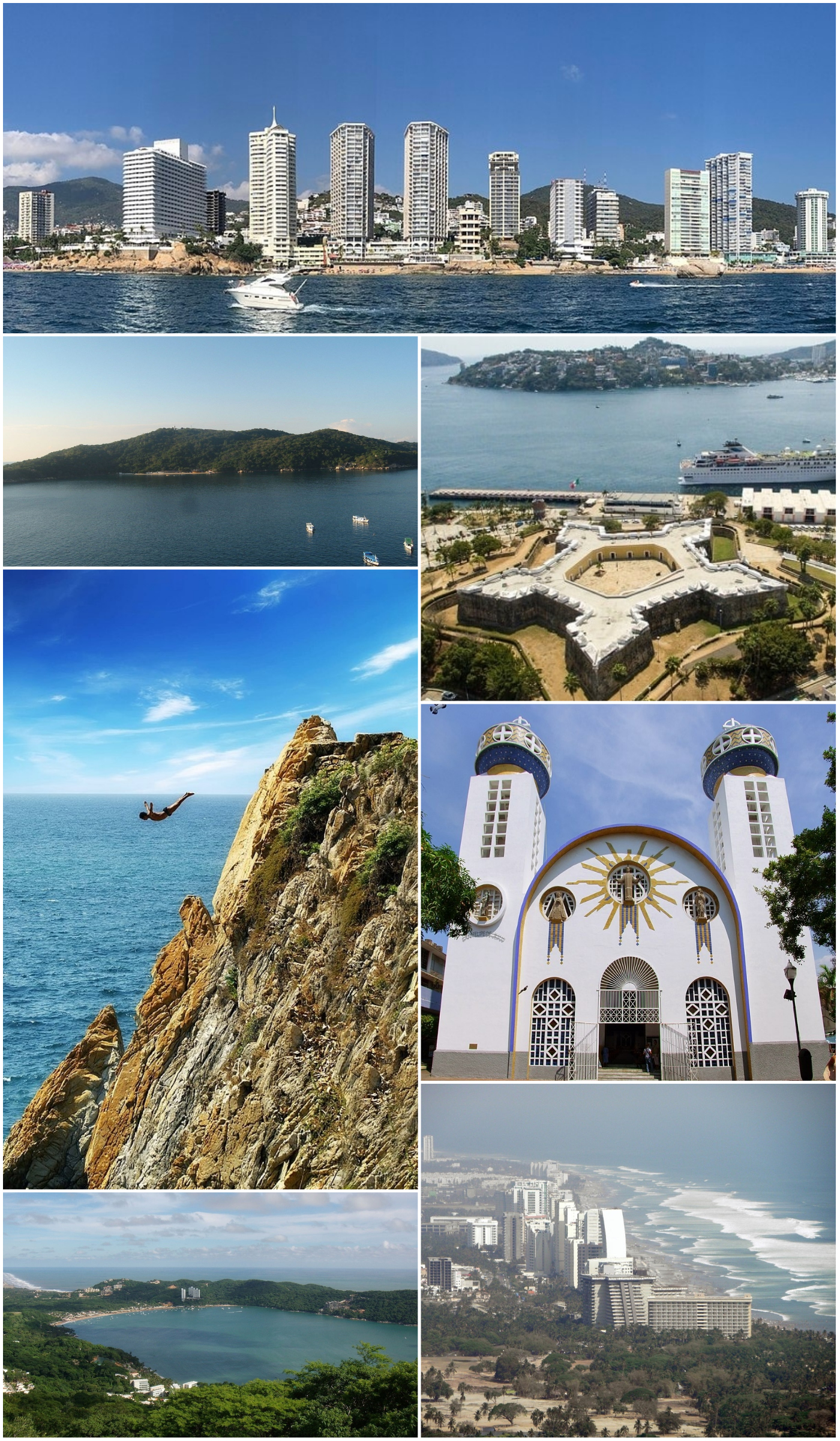 Acapulco